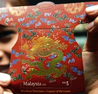 2012 Malaysia Chinese New Year - Year of Dragon stamps